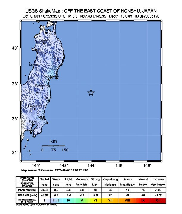 Intensity - M 6.0 - 255km ESE of Ishinomaki, Japan